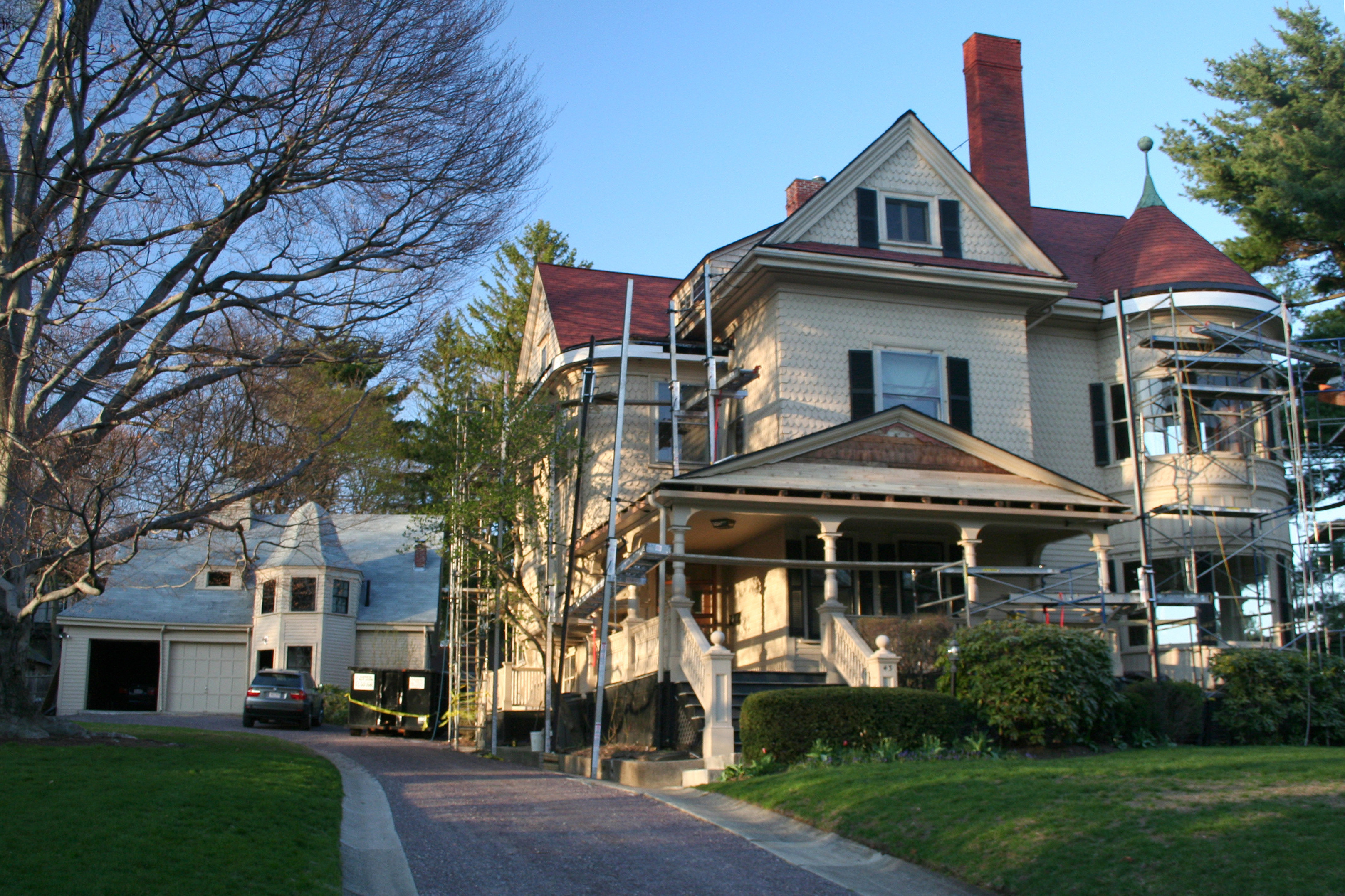 Located at 43 Fairmont Ave.